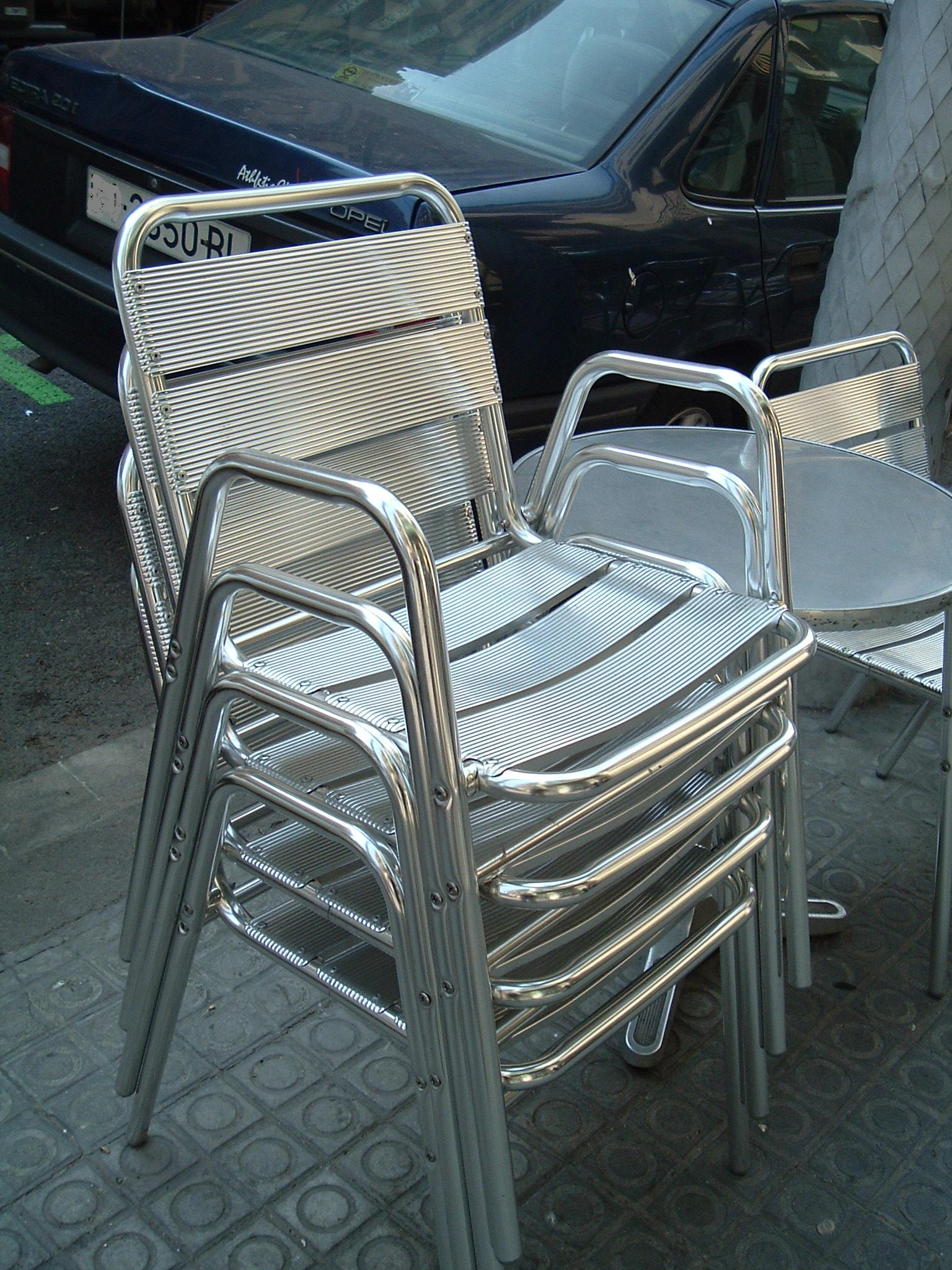 Aluminum made chairs.